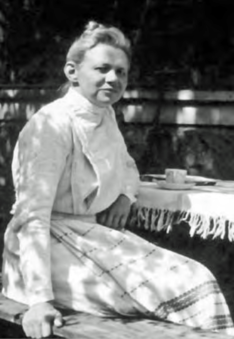 Finnish singer and singing teacher, activist of the temperance movement